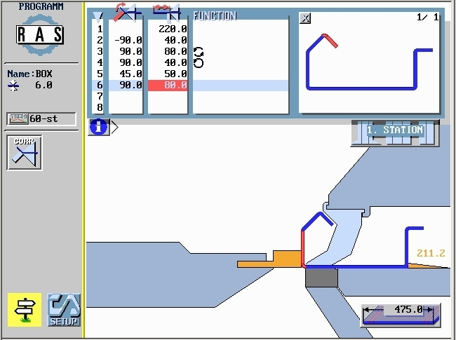 Modern controls automatically create a folding program